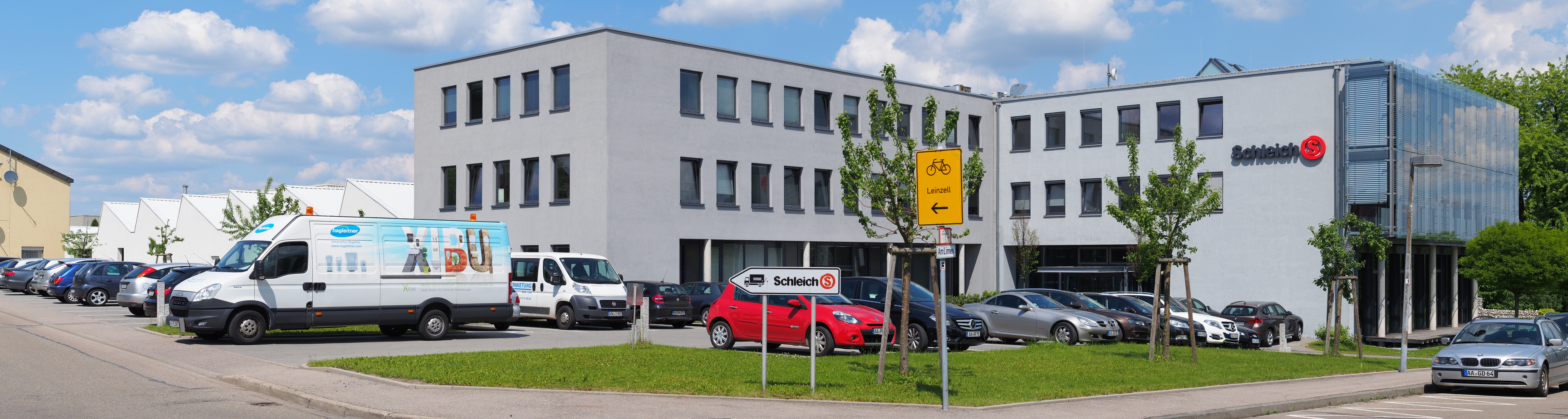 Schleich plant in Herlikofen, manufacturer of toy animals